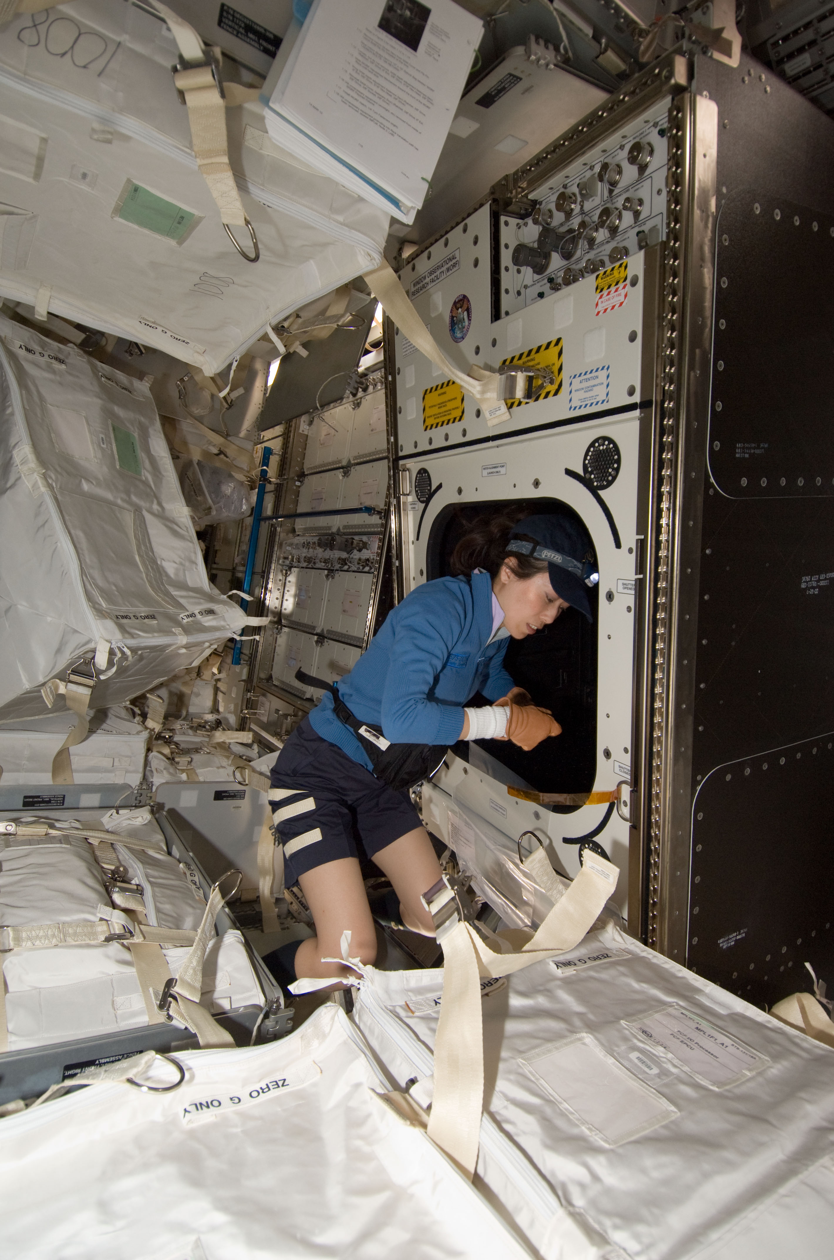 Japan Aerospace Exploration Agency (JAXA) astronaut Naoko Yamazaki, STS-131 mission specialist, works with the Window Observational Research Facility (WORF) in the Destiny laboratory of the International Space Station while space shuttle Discovery remains docked with the station. WORF will provide cameras, multispectral and hyperspectral scanners, camcorders and other instruments to capture Earth imagery through Destiny's nadir window.